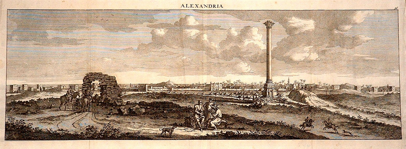 Cornelius de Bruyn, view of Pompey's Pillar with Alexandria in the background, 1681.